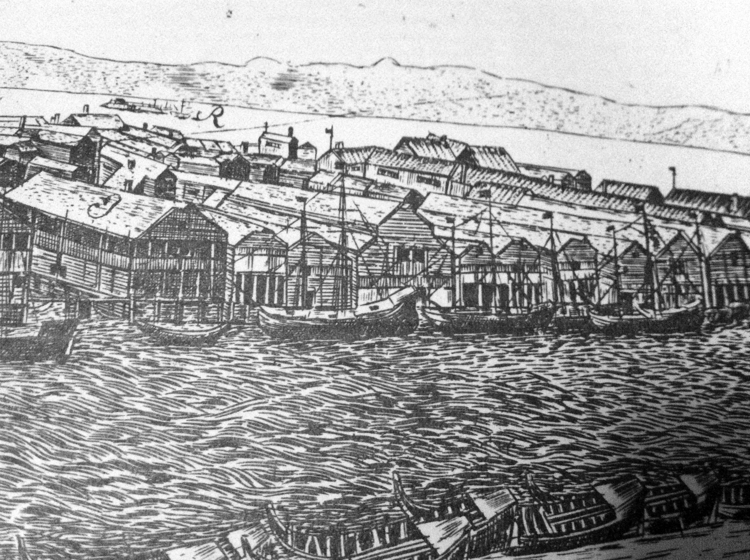 Detail of a prospect of the Norwegian city Trondheim, seen from the East, in 1674, showing the oldest known "seteritak" (special kind of roof) in Norway